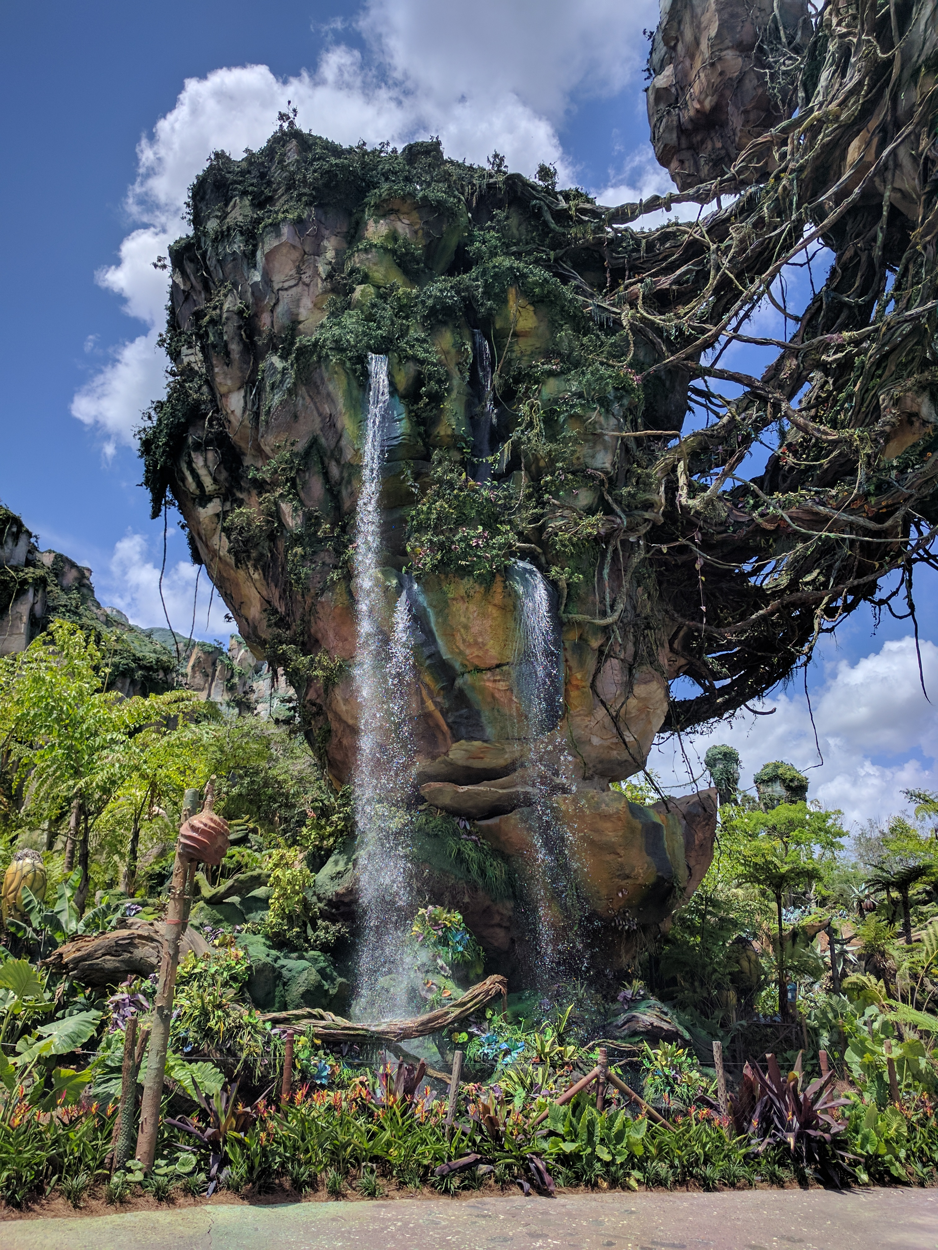 Cast Pongu (Party) at Pandora-The World of Avatar